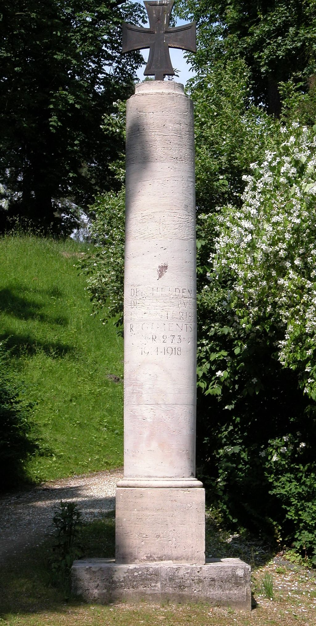 Brunswick, Germany: Monument for Reserve Infantry Regiment 273.